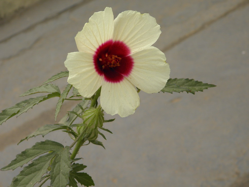 Family: Malvaceae Distribution: Found through out the tropics. Photographed in my kitchen garden.The leaves of the plant are used as leafy vegetable and a favourite pickle is prepared in Andhra Pradesh, which is known as "Gongura pachchadi" Fiber is extracted from the stem, which is used in agricultural activities. Description: 1-1.5m tall herbs, leaves deeply 3-5 lobed, serrate margin, slightly hairy, leaves sour to taste, Flowers solitary axillary, 4-5 cm across, light yellow with a dark purple throat, Capsule globose, apiculate, bristly, seed are also edible. Description: 1-1.5m tall